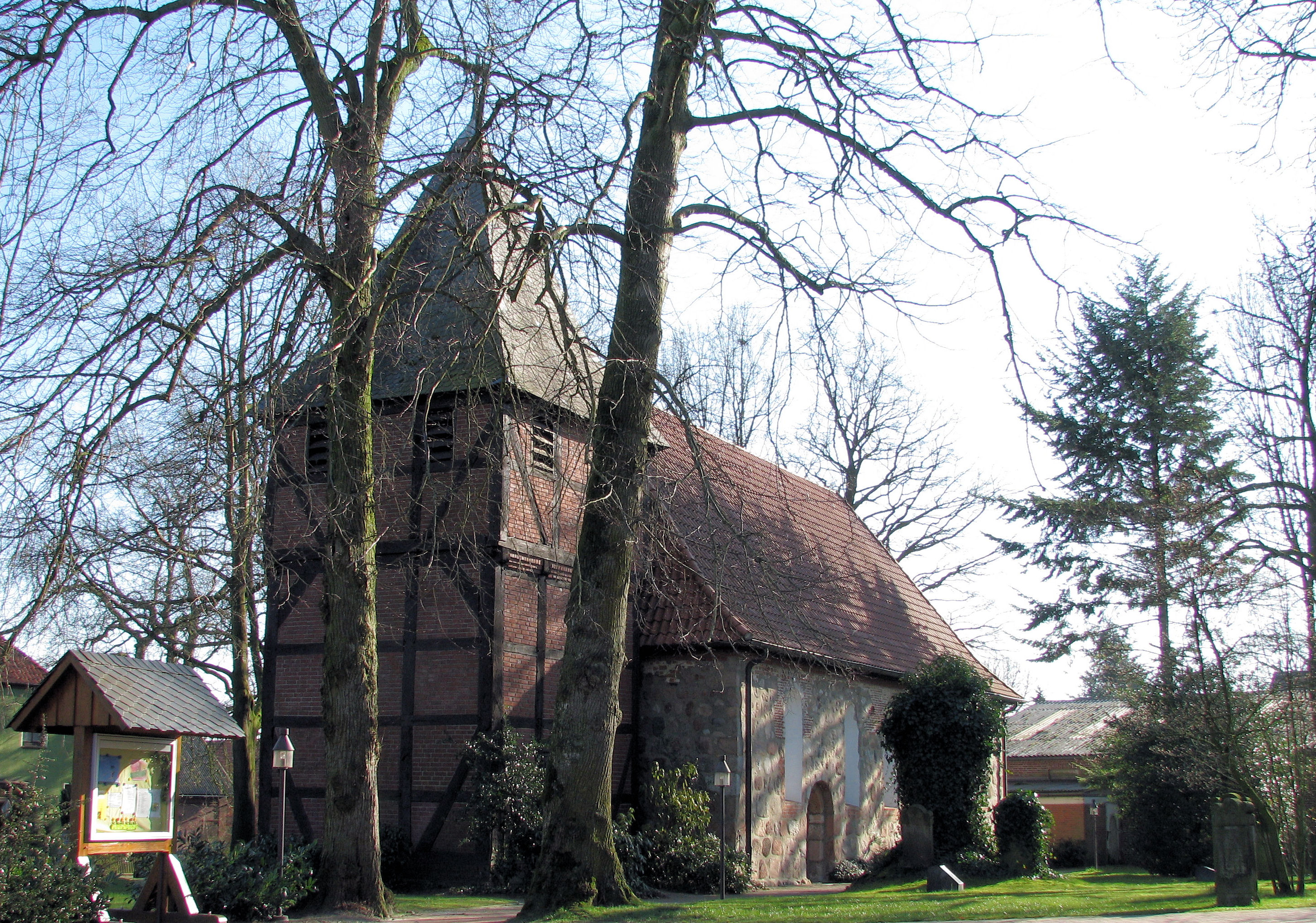 Evangelical Lutheran Fieldstone Church of St. Margaret in Gyhum